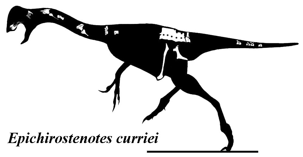 Skeletal reconstruction of Epichirostenotes curriei.